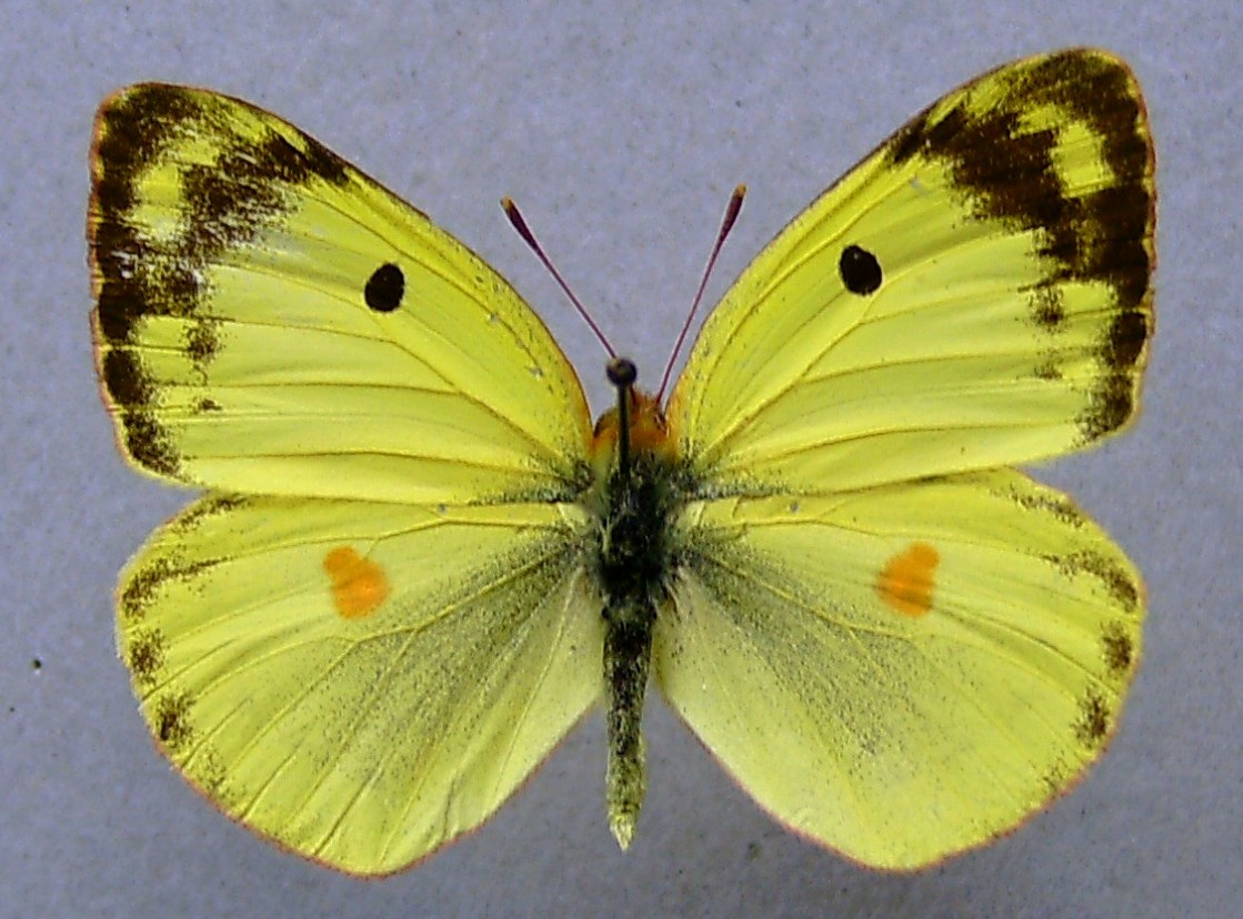 Colias alfacariensis male